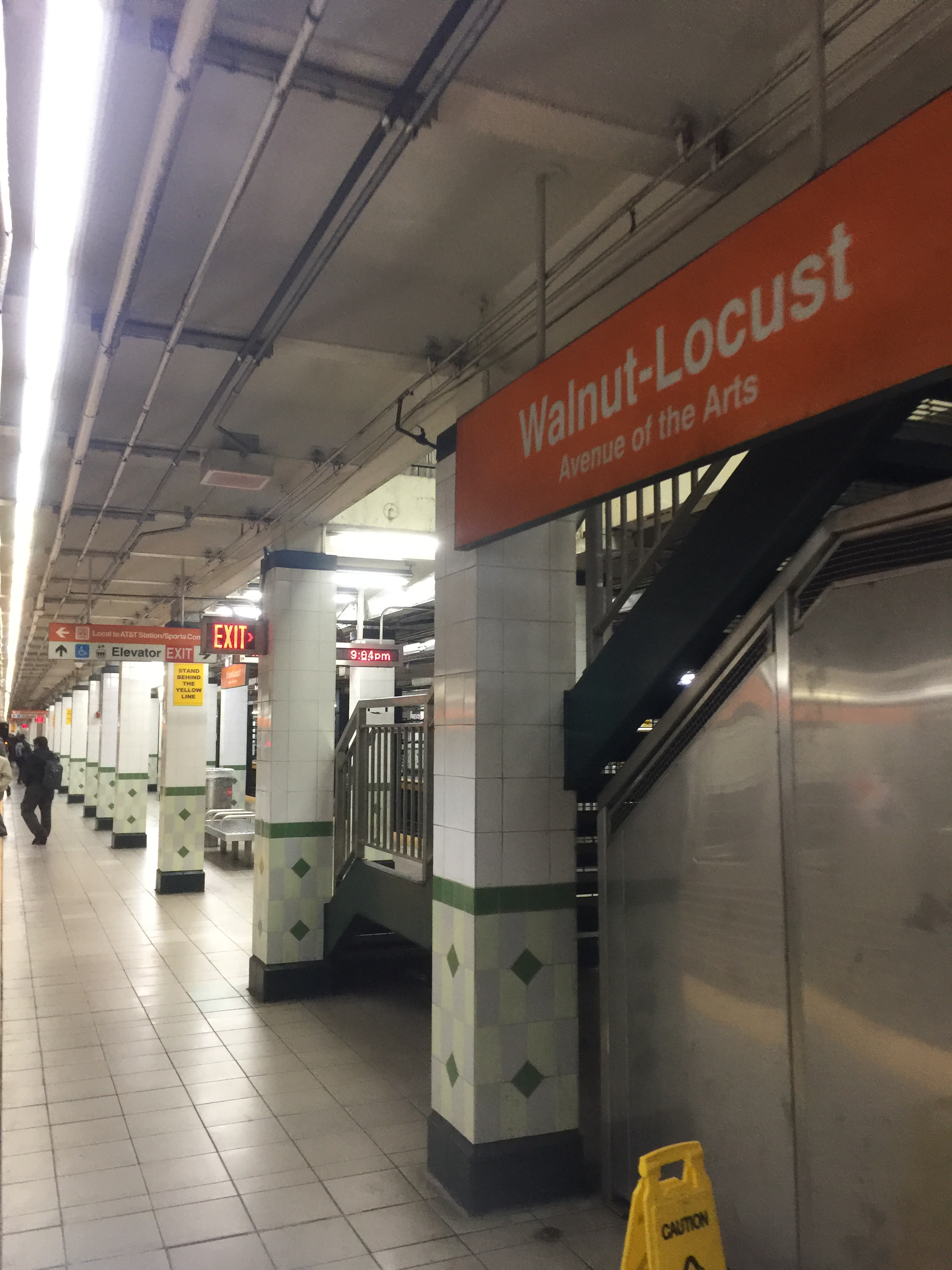 Walnut-Locust/Avenue of the Arts station